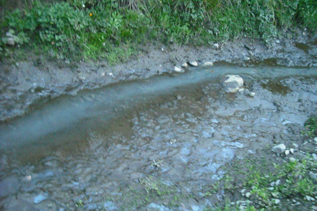 Dairy discharge creating water pollution